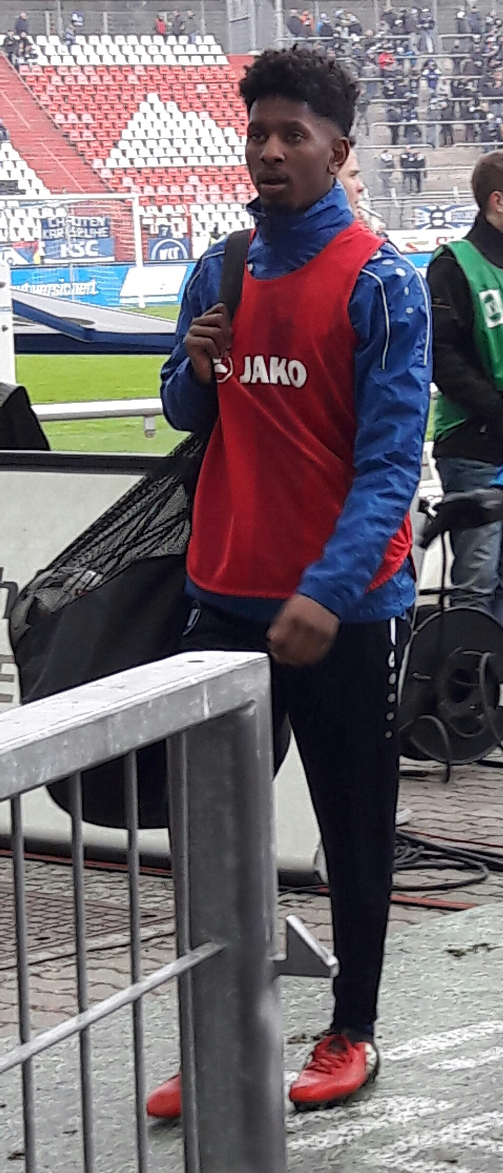 Footballplayer Boubacar Barry before the match KSC - Eintracht Braunschweig at December, the 17th 2016